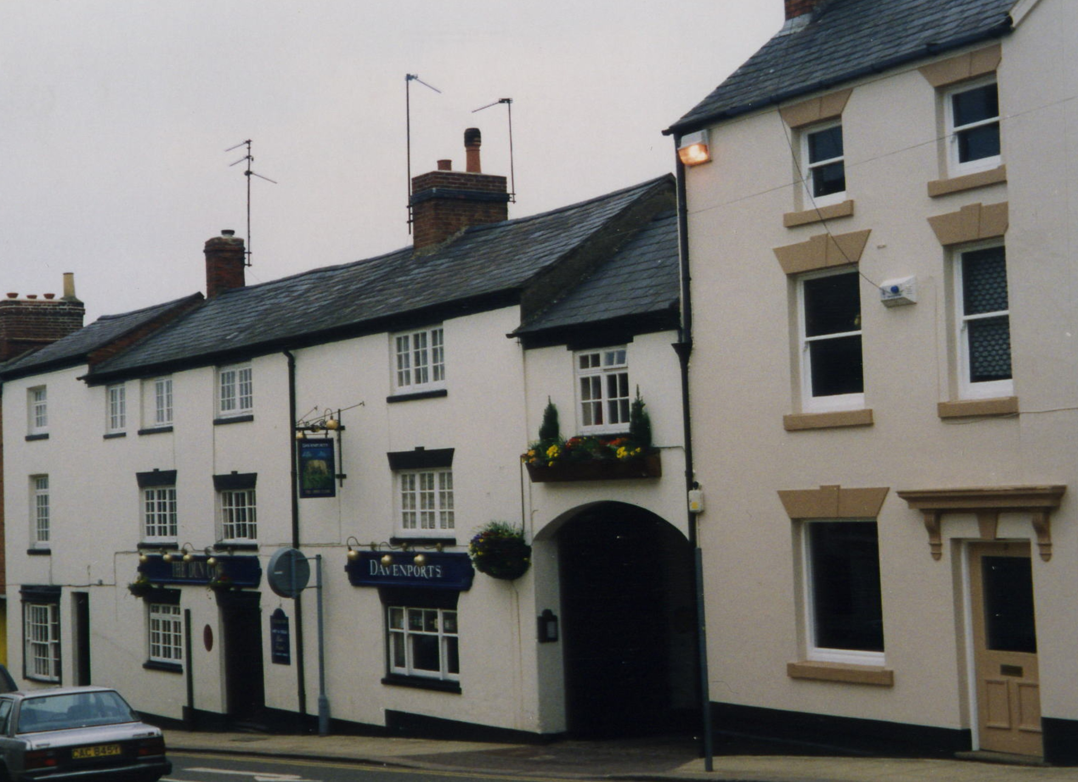 an original digital photograph of the Dun Cow coaching inn, Brook Street, Daventry, Northamptonshire, England.